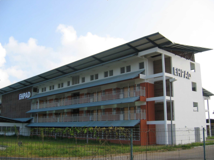 EHPAD Cayenne Andrée Rosemon